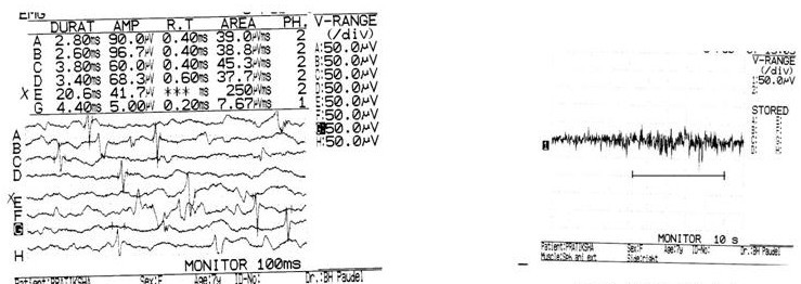 ostoperative EMG of EAS during rest (on the left) and voluntary contraction (on the right) showing preservation of integrity and function of EAS showing polyphasic motor unit potentials (scale).